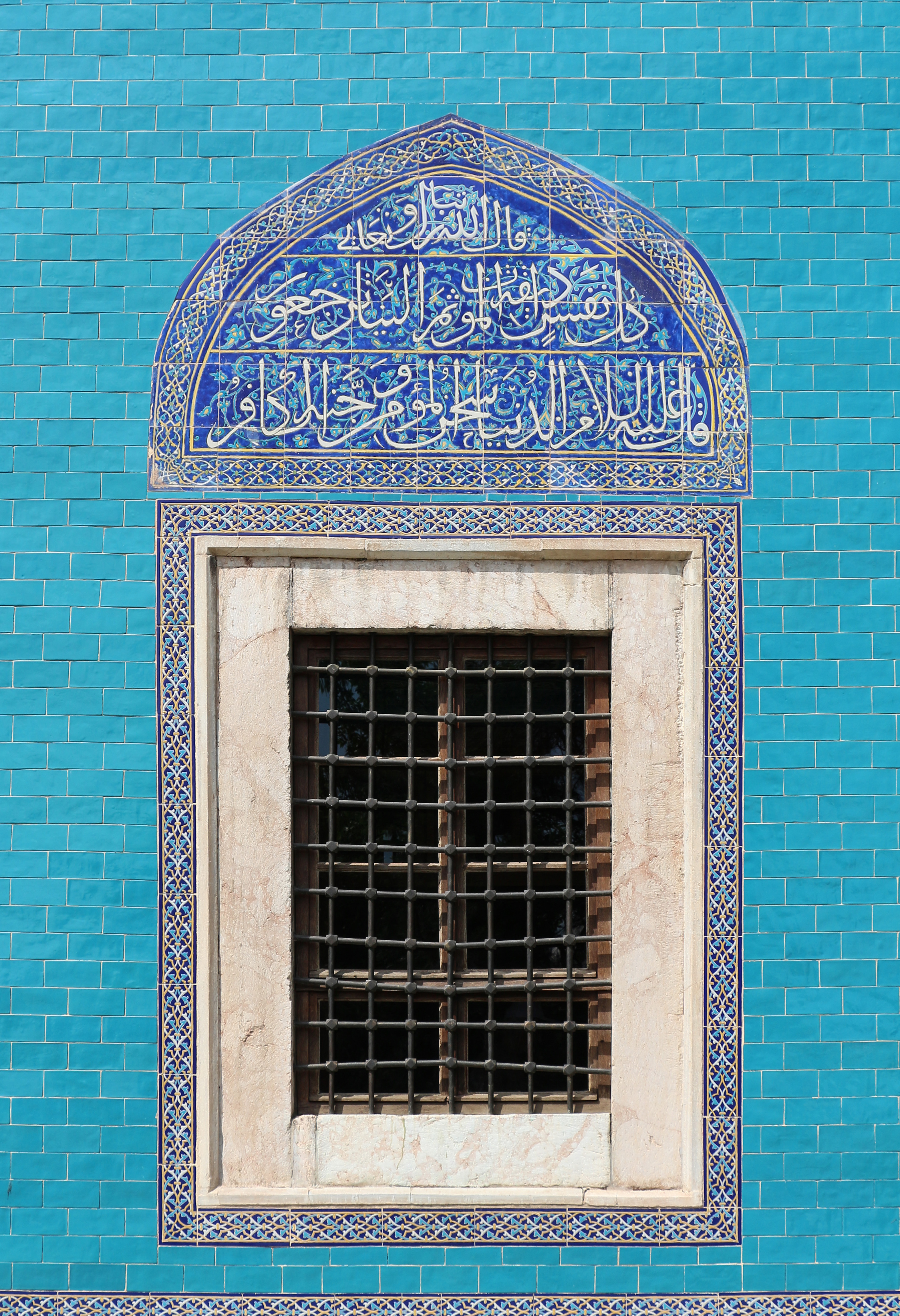 A window of the Yeşil Türbe, Bursa, Turkey